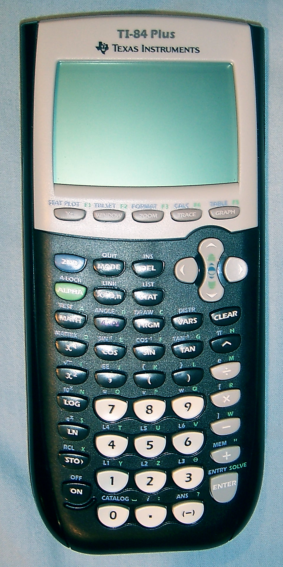 TI-84 Plus front